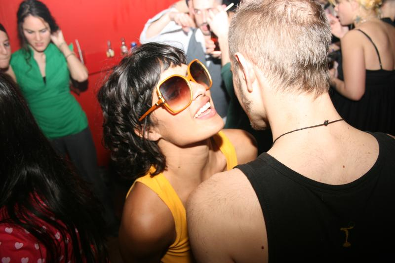 Party in Barcelona